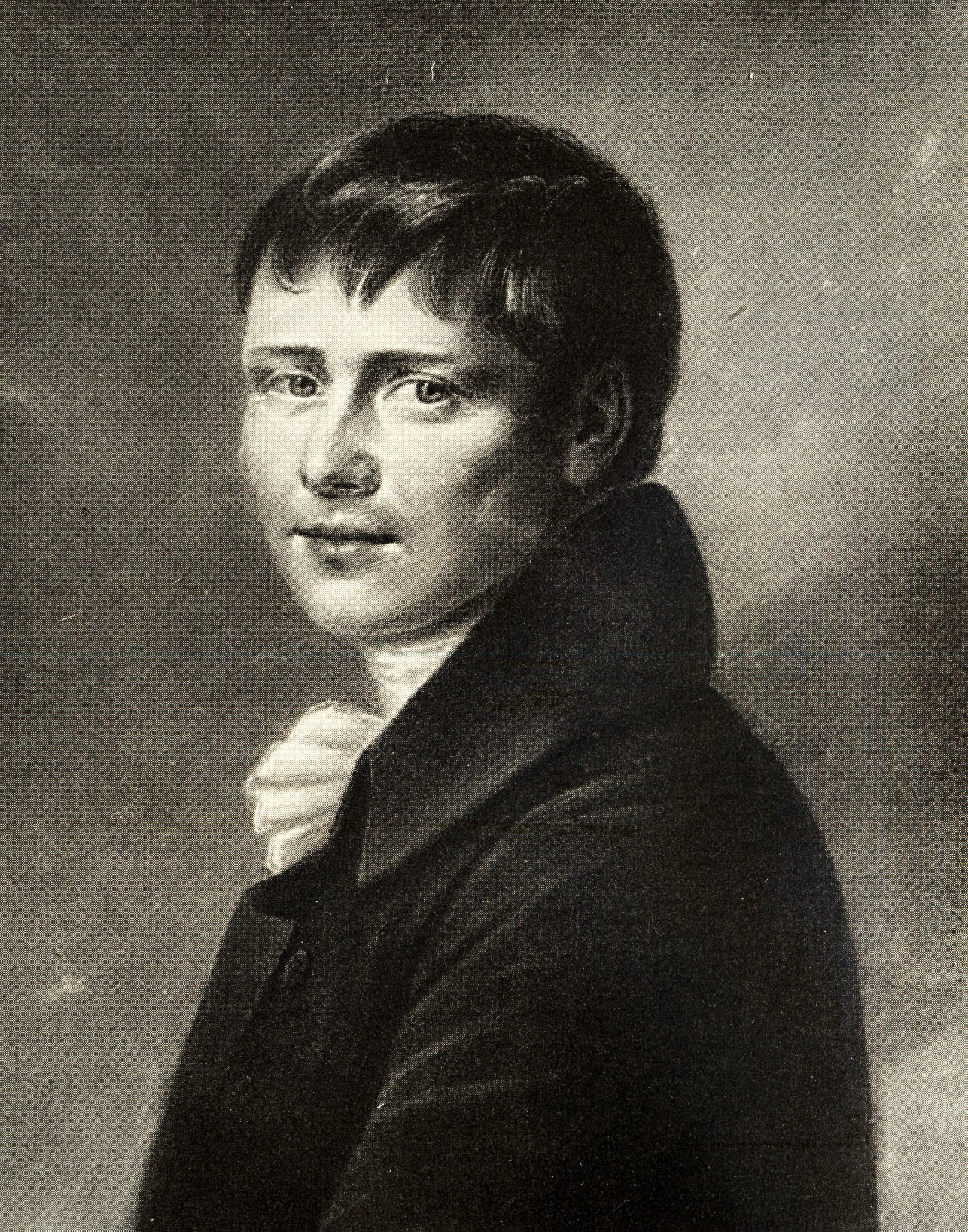 Heinrich von Kleist (1777-1811); 25:20 cm